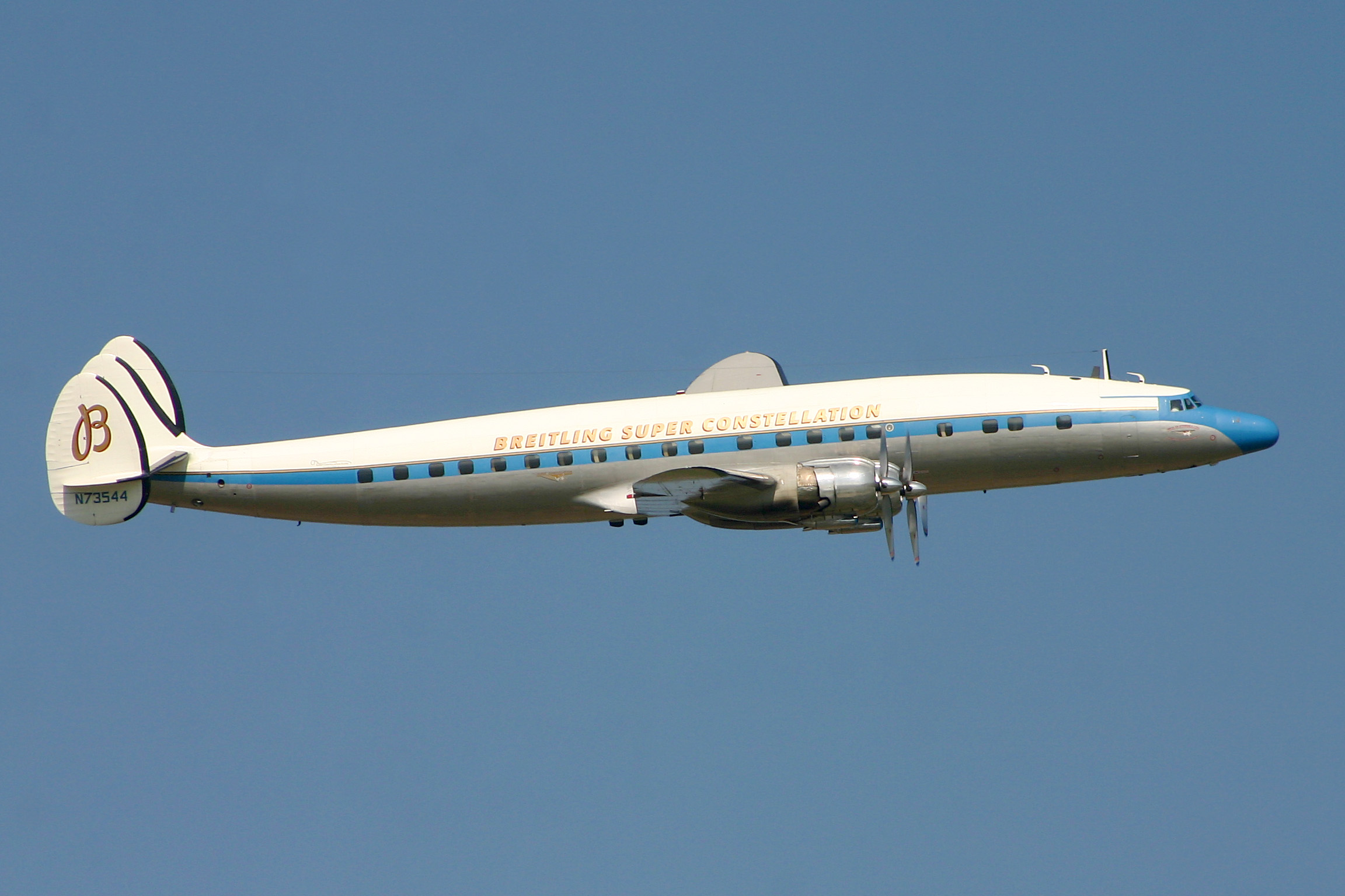 Lockheed Super Constellation at Air 04, Payerne, Switzerland